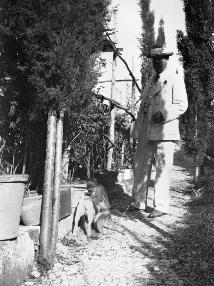 Photograph of the Swedish writer Axel Munthe (1857–1949) with his pet ape and pet dog.